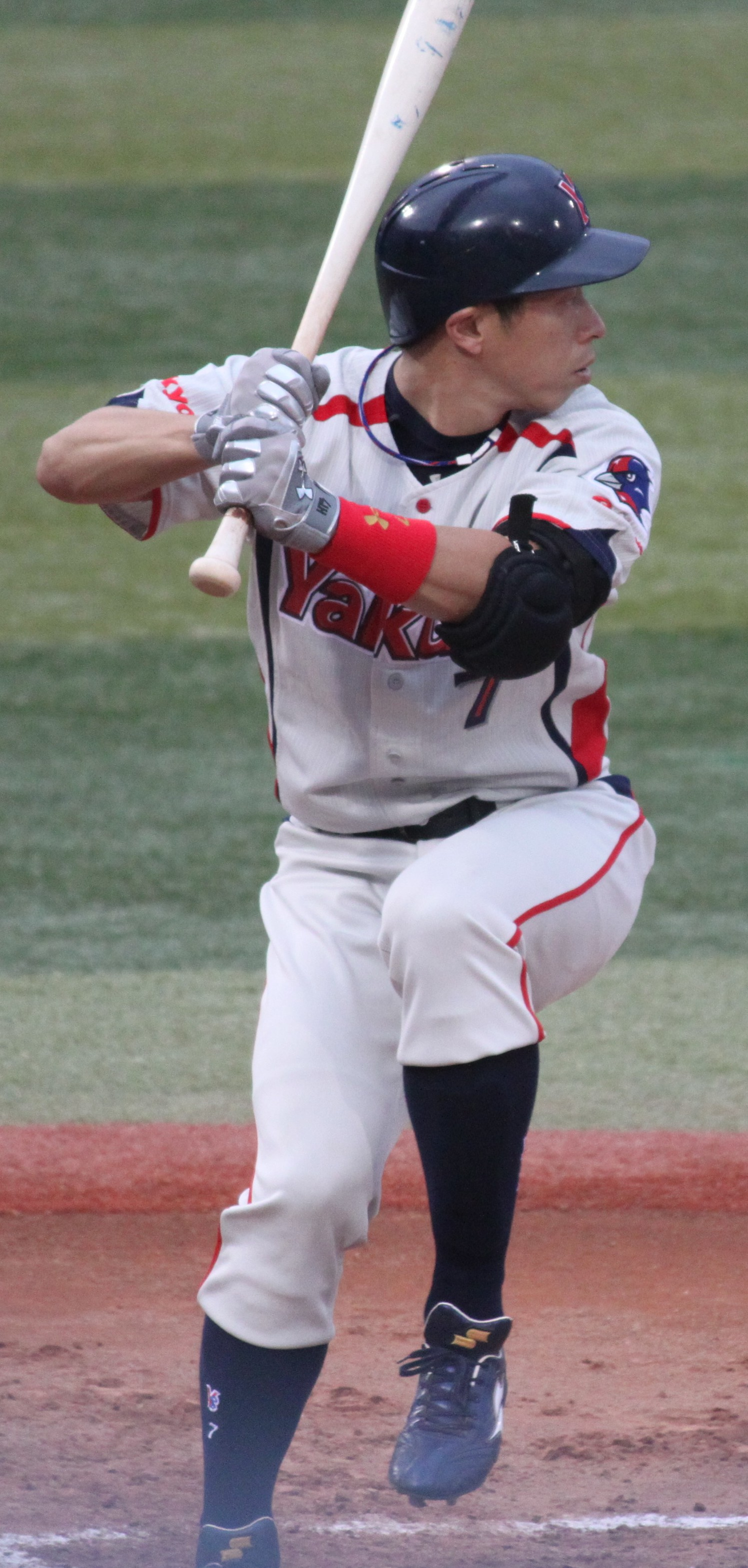 Hiroyasu Tanaka, infielder of the Tokyo Yakult Swallows, at Yokohama Stadium.